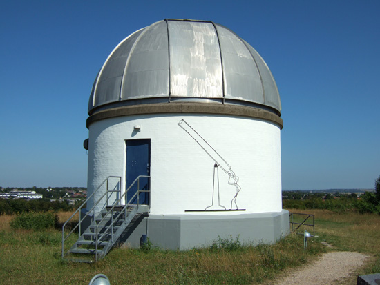 Urania observatory in Aalborg, Denmark, opened April 1988